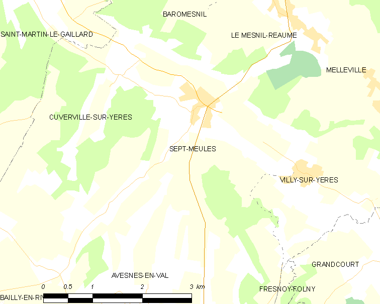 Map of French municipality Sept-Meules